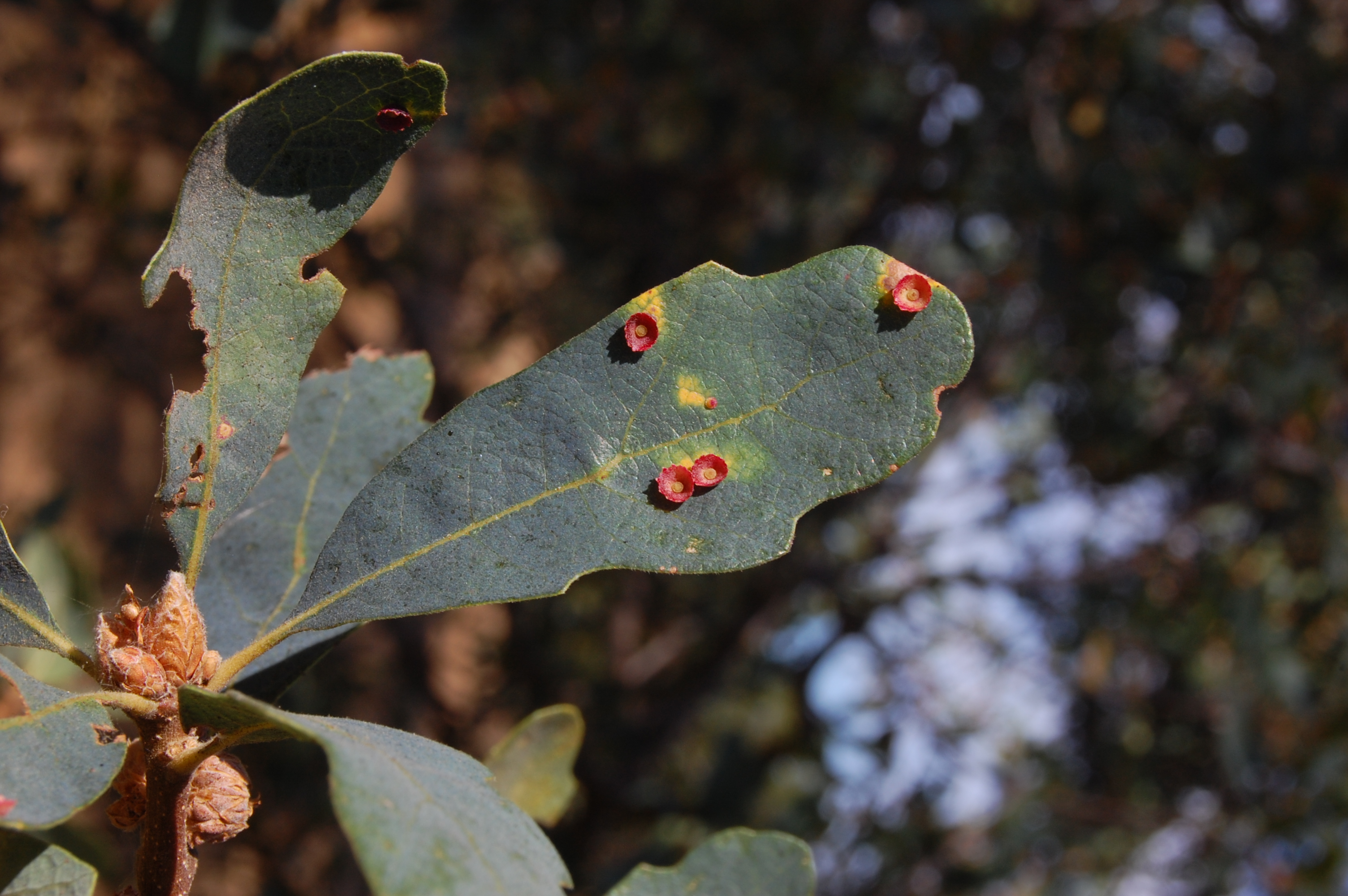 Blue Oak with galls